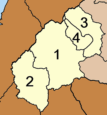 Map of Phato district, Chumphon province, with the communes (tambon) numbered Phato (พะโต๊ะ) Pak Song (ปากทรง) Pang Wan (ปังหวาน) Phra Rak (พระรักษ์)